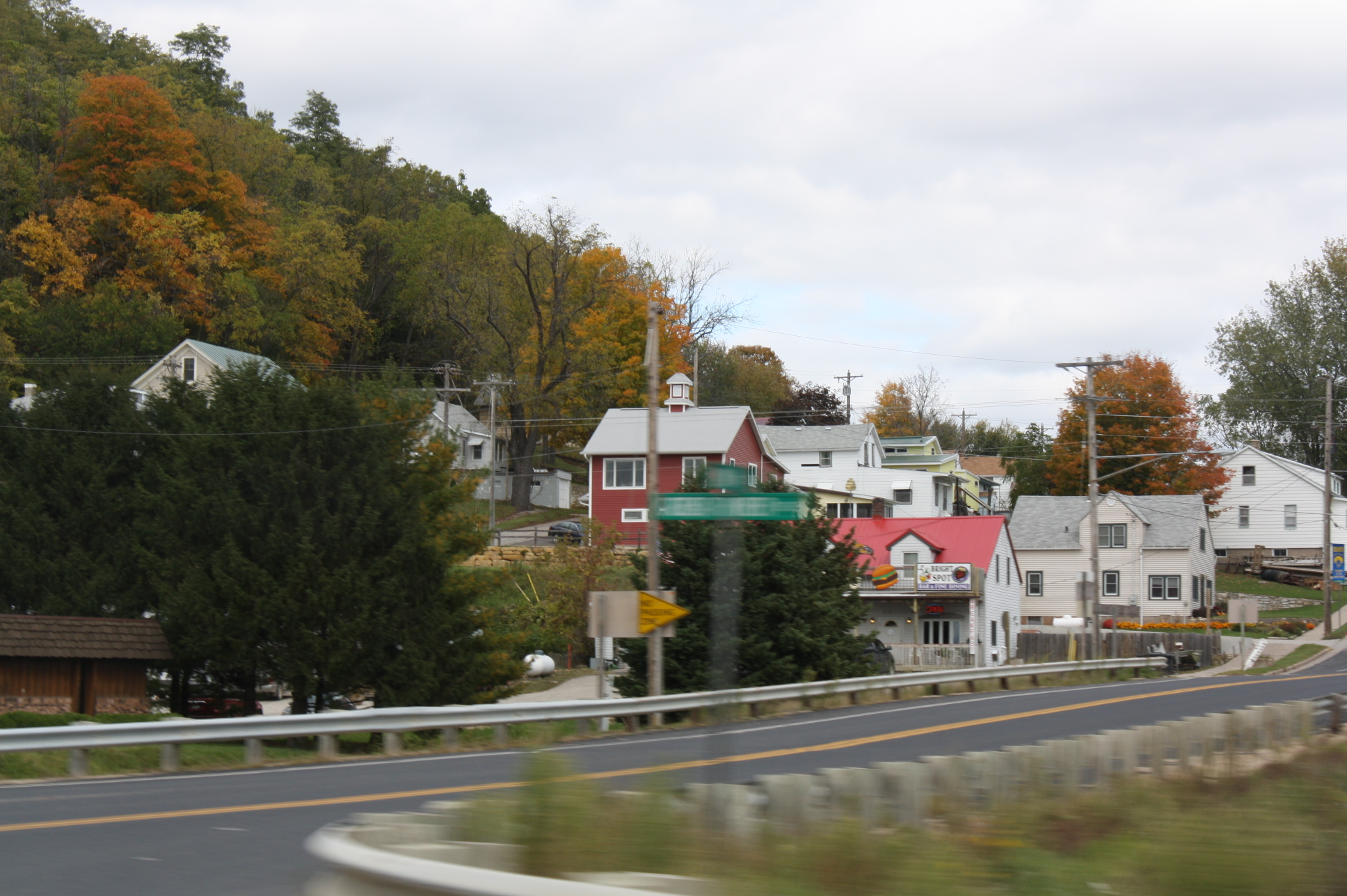 Looking northeast as Wisconsin Highway 82 turns east in downtown De Soto, Wisconsin on Wisconsin Highway 35 along the Great River Road.